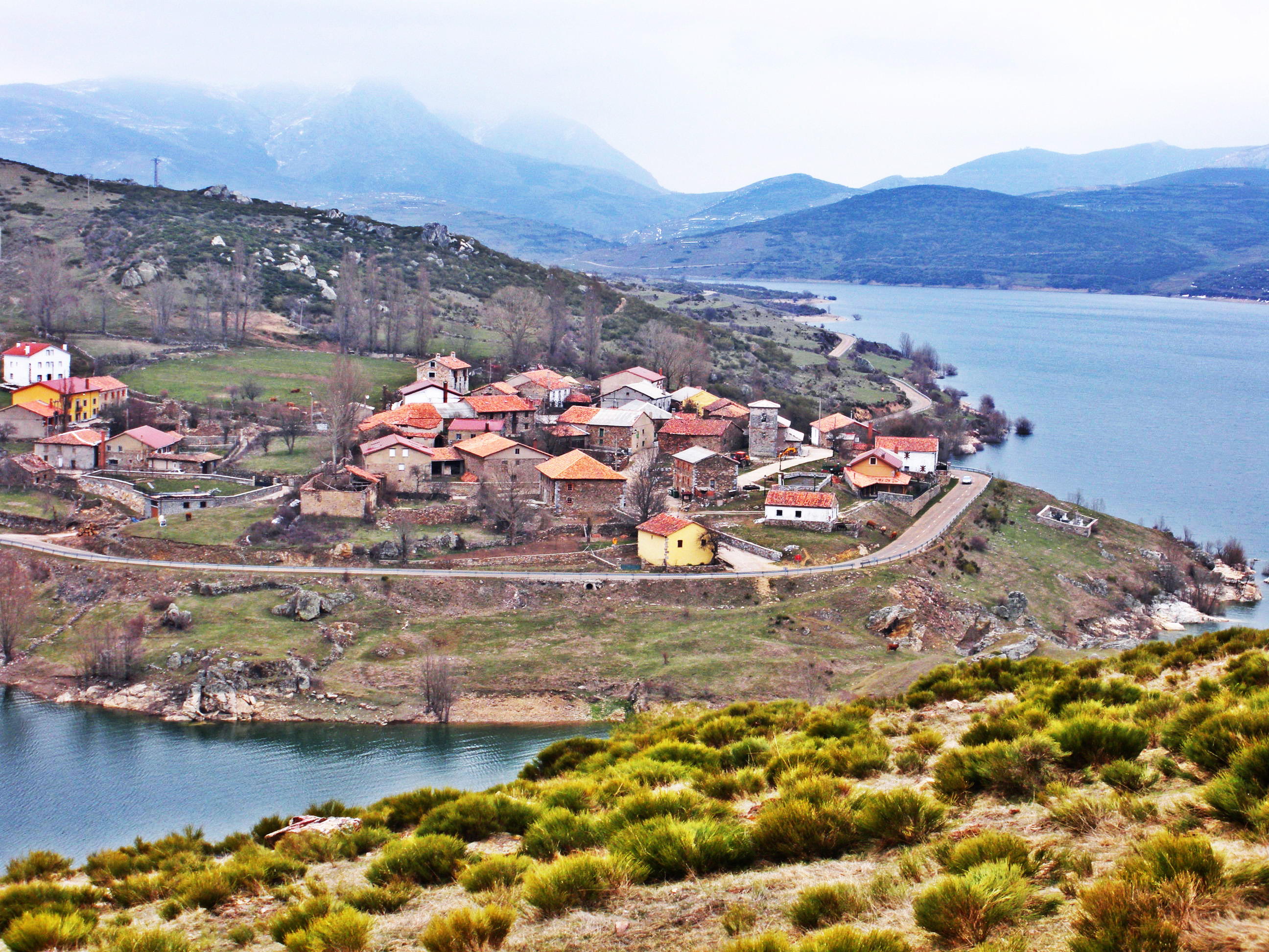 View of Alba de los Cardaños, in the province of Palencia, Spain.